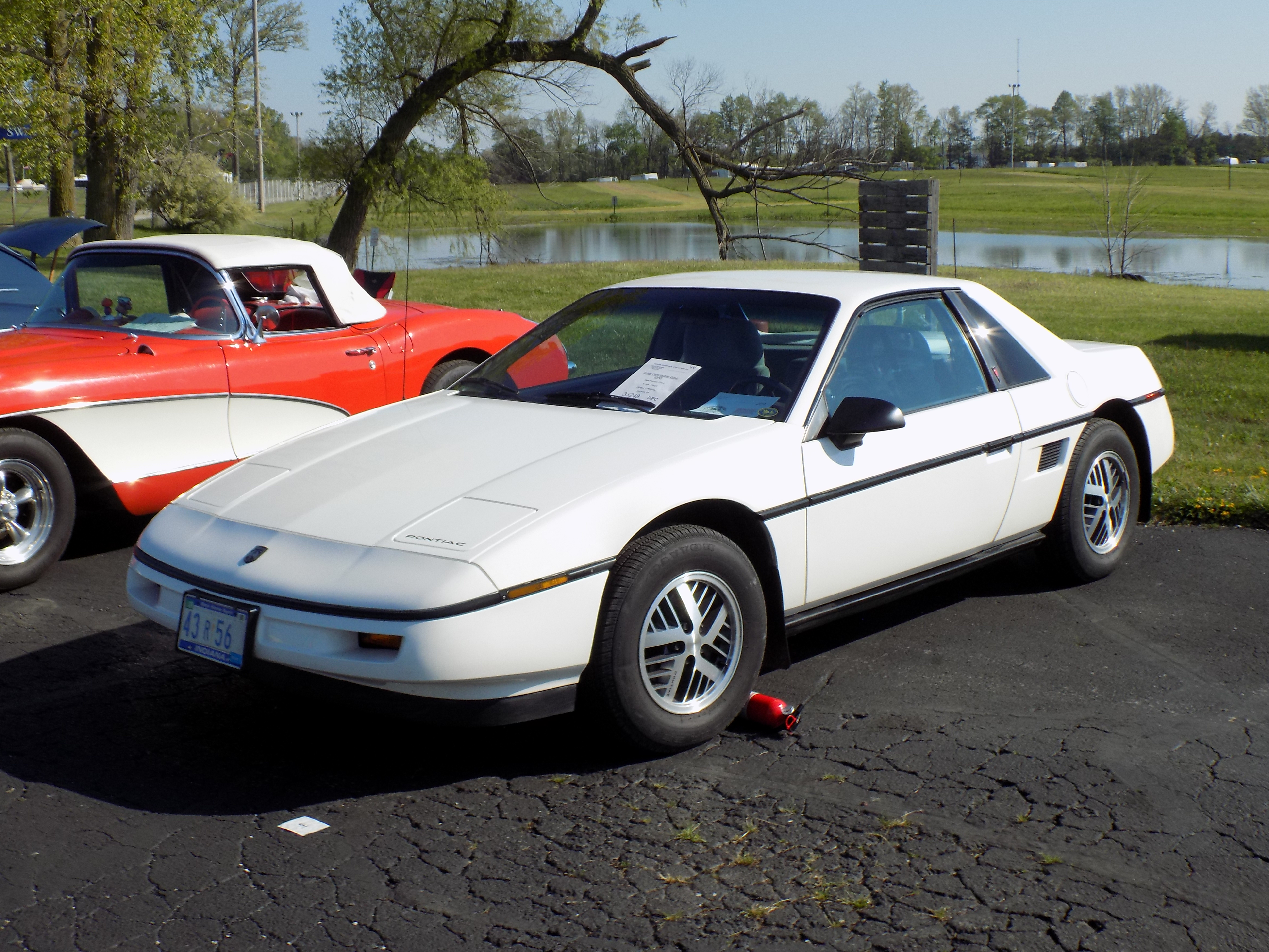 Triple Crown Antique Automobile Club of America (AACA) Classic Car Club Of America (CCCA) First Joint Meet Auburn Auction Park Auburn, Indiana May 2017 . Click here for more car pictures at my Flickr site. Or here for my Car Crazy Tumblr site. Or on Twitter @DVS1mn.